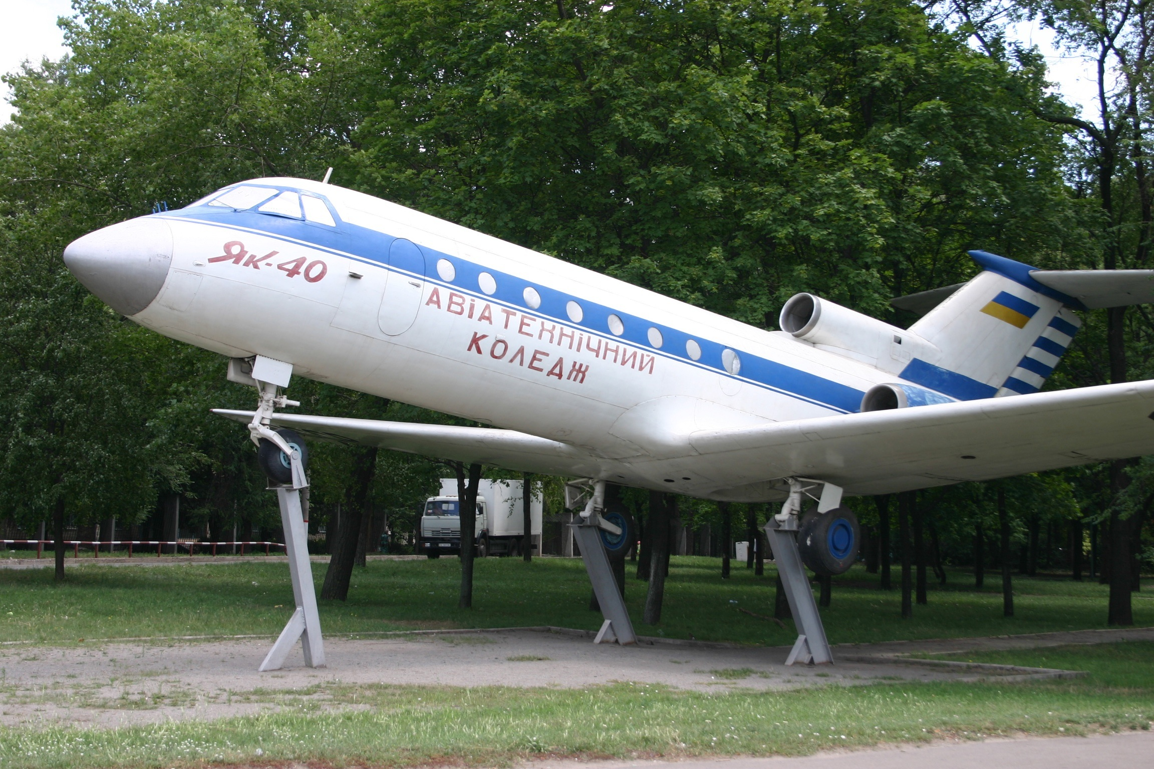 At Kriviy Rig